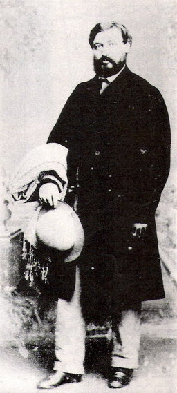 Moses Wilhelm Shapira, trader and forger of moabitic antiquities